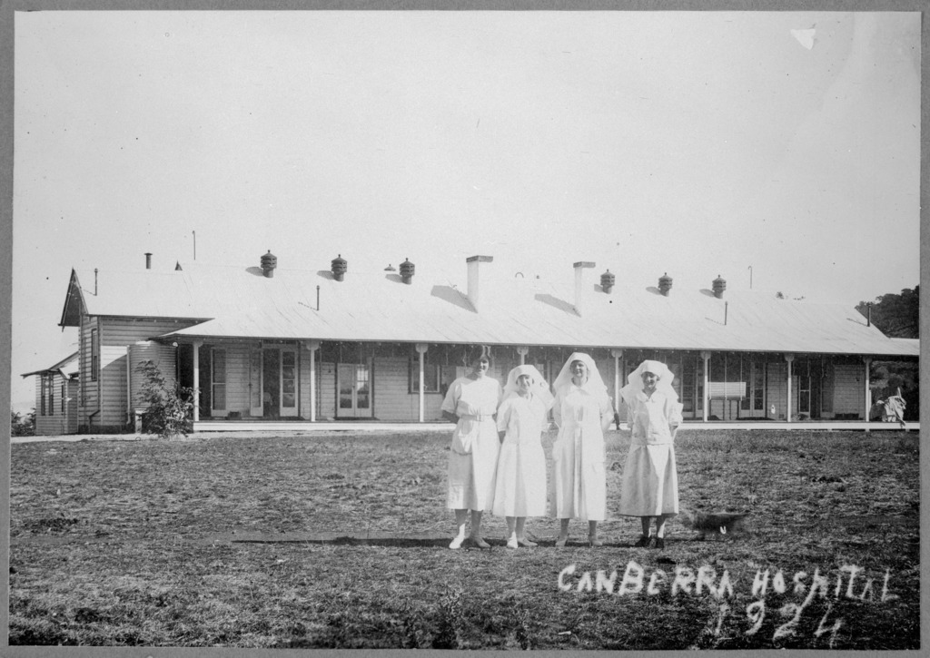 Photograph of nurses in front of the Canberra Hospital, taken in 1913 by an unknown photographer. The nurses have been identified as Matron G. Lawler (without veil) and staff (possibly Sisters Marcia and Angela Kelly and one other). (See: National Library of Australia catalogue, Bib ID 3888946)